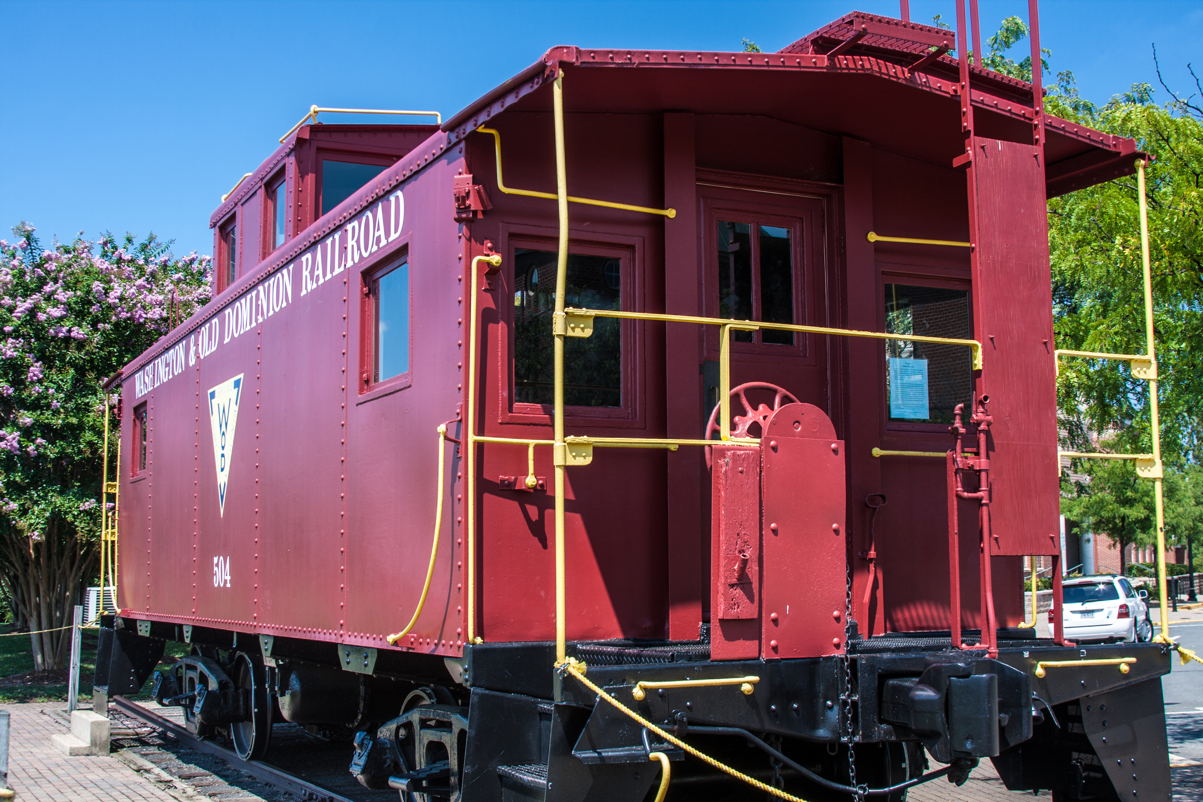 Retired Norfolk & Western Railway cupola caboose repainted and renamed as W&OD No. 504 after relocating to Washington & Old Dominion Railroad Regional Park near former W&OD station in Herndon, Virginia (